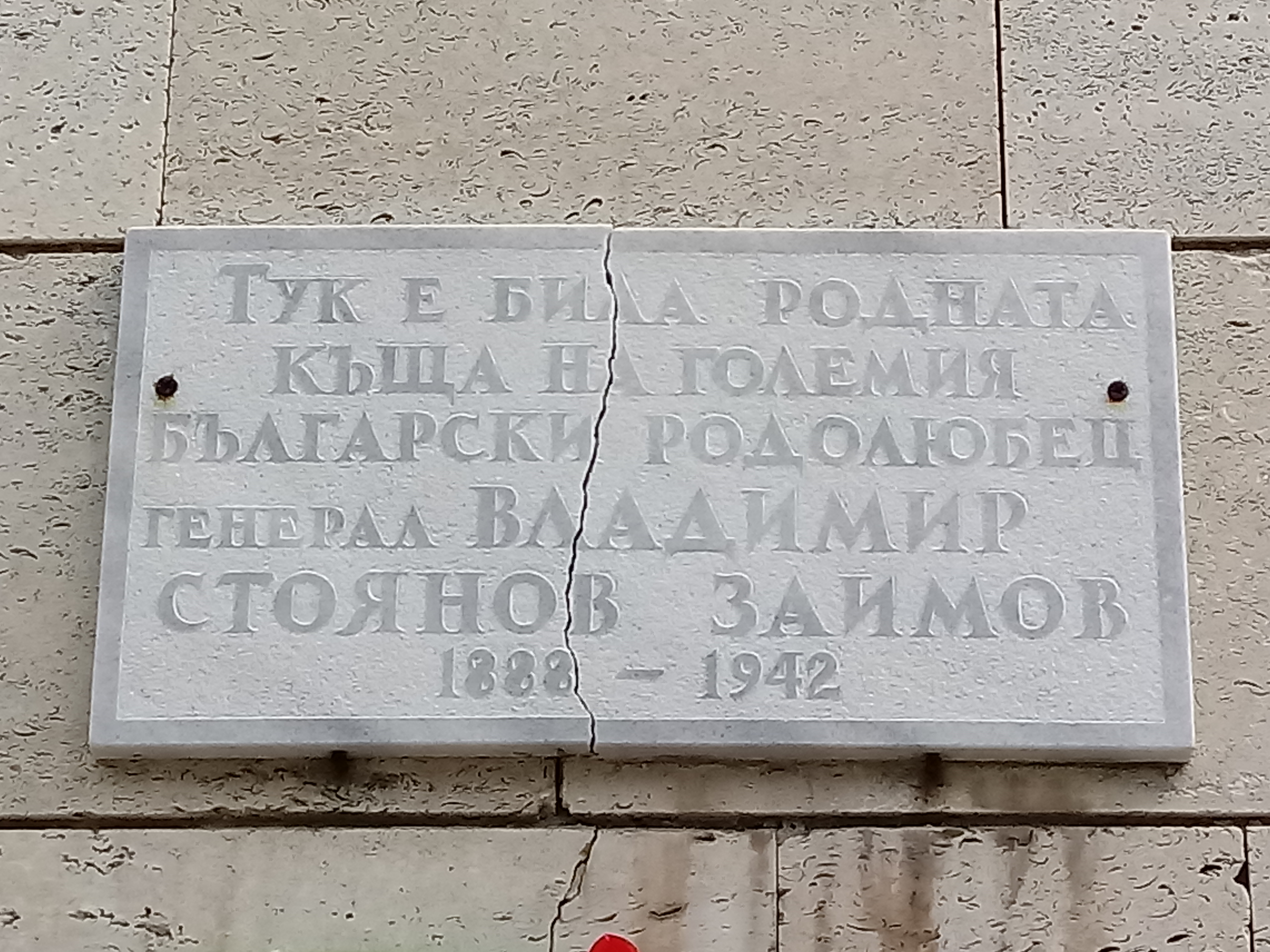 Memorial plaque on the facade of the now disfunctioning cinema "Vladimir Zaimov" in the centre of Kyustendil, at the place of his native house